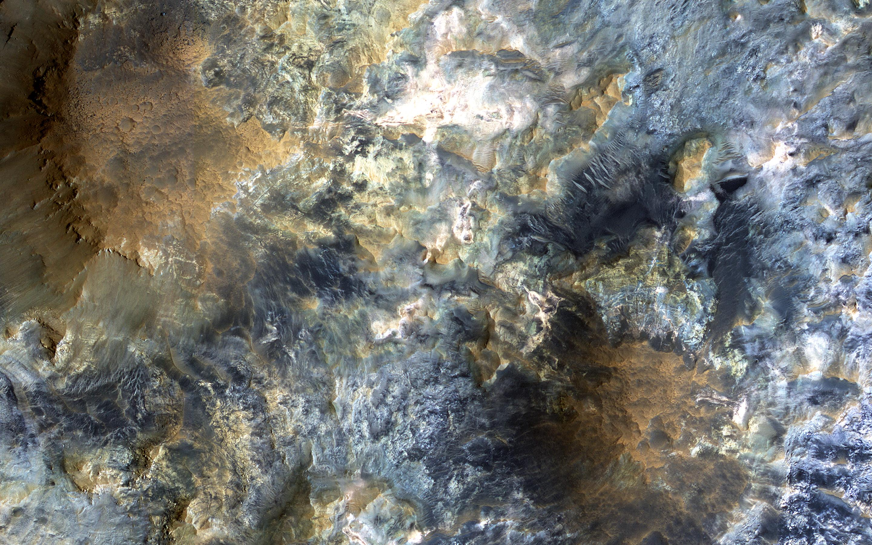 The Color Wonderland of Mawrth Vallis.There is a candidate landing site in the Mawrth Vallis region for the European Space Agency's ExoMars rover, planned to launch in 2020. This is one of the HiRISE images acquired to evaluate this site. Mawrth Vallis has some of the most spectacular color variations seen anywhere on Mars. This color variability is due to a range of hydrated minerals -- water caused alteration of these ancient deposits -- which is why this site is of interest to study the past habitability of Mars.